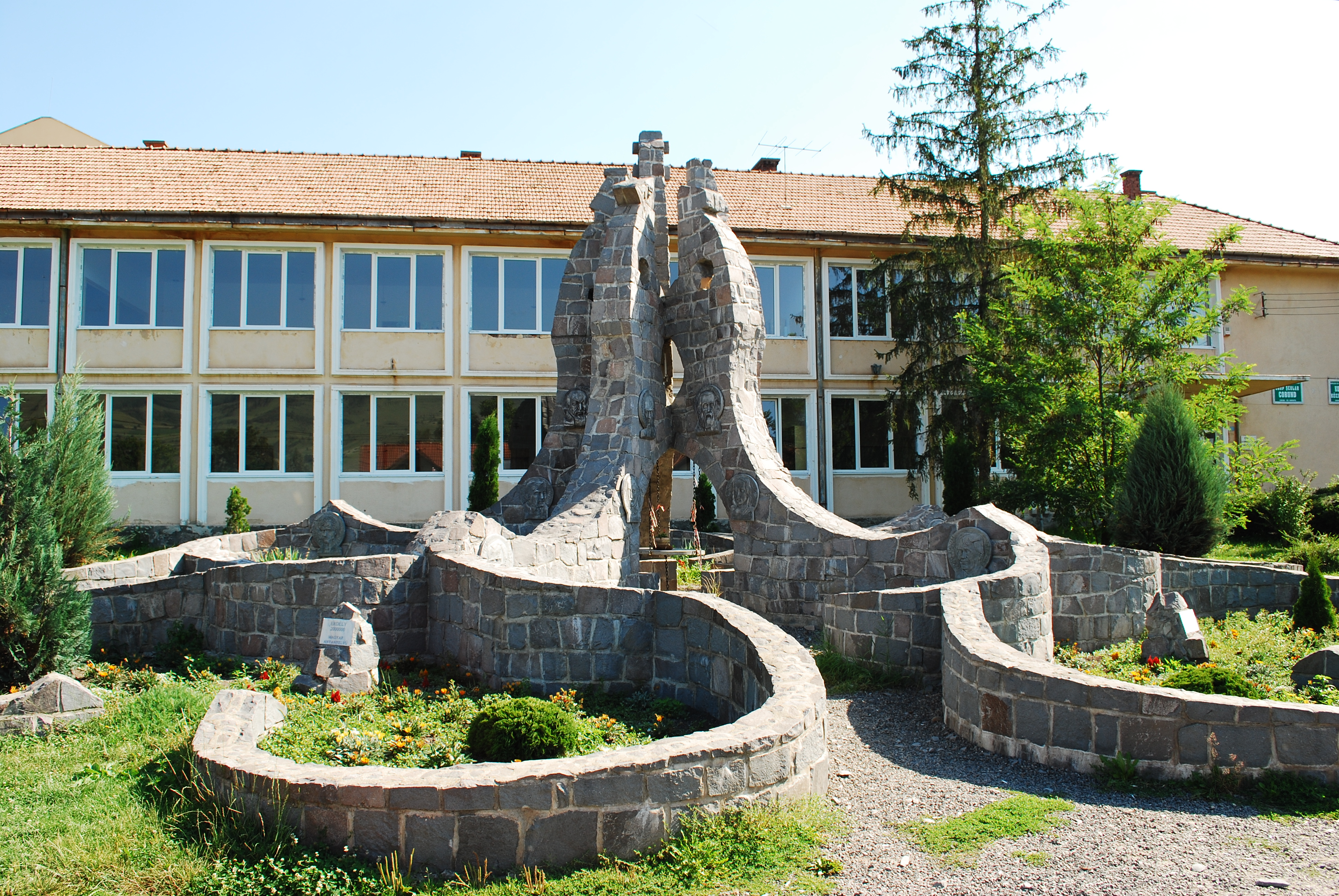 The monument in the center of Corund, Harghita County, Romania